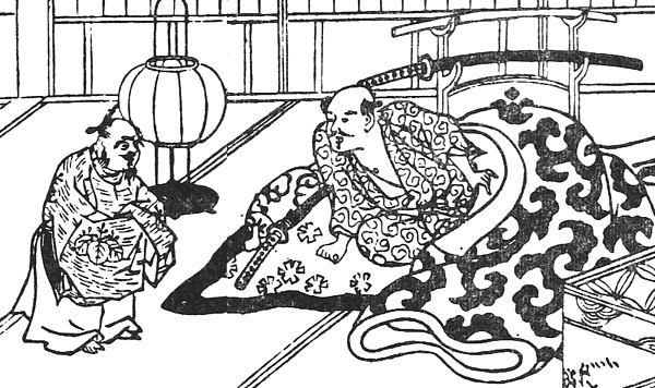 The spirit of money (the archetype of Zashiki-warashi) from Tales of Moonlight and Rain